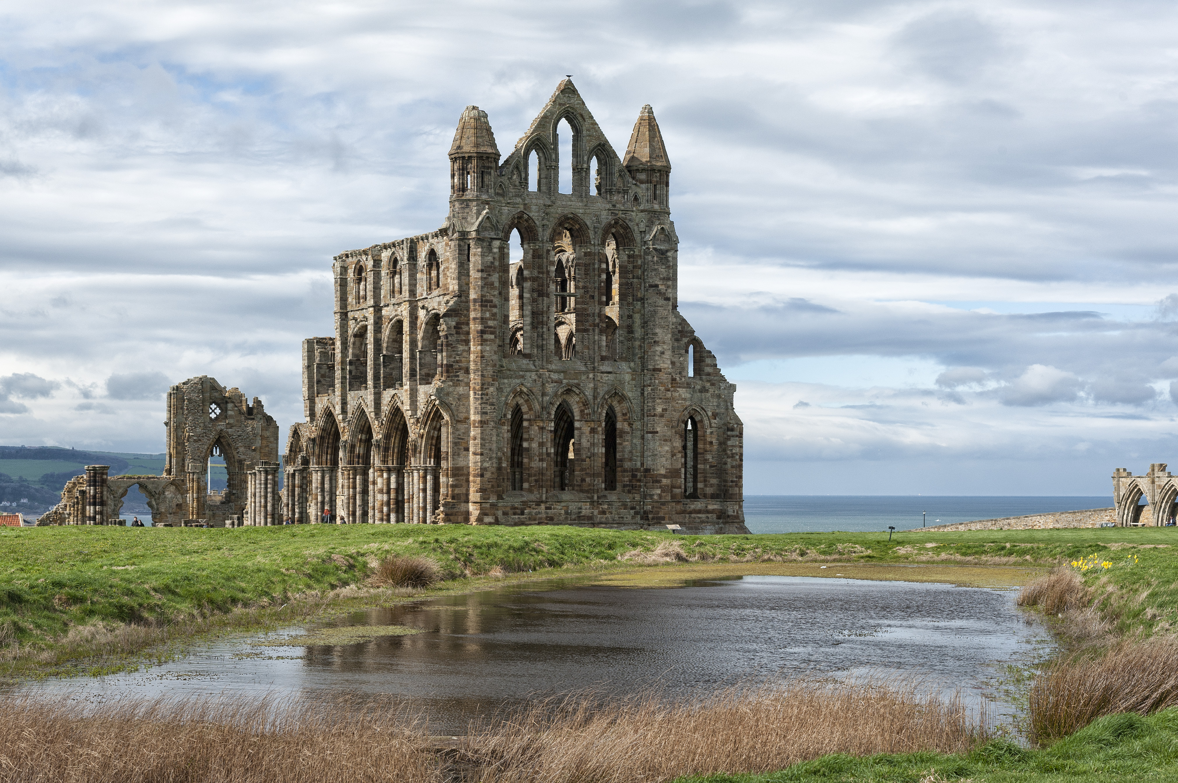 WHITBY ABBEY (RUINS) Wikidata has entry Q1469493 with data related to this building.